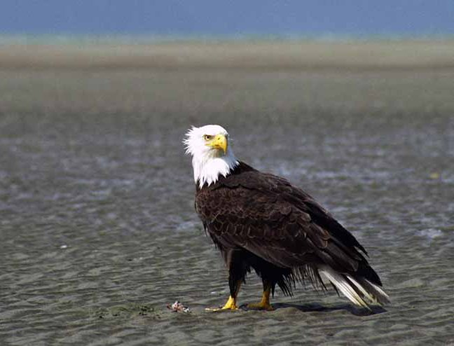 wild bald eagle sits calmly with lunch at feet on tidal flats at Spanish Banks